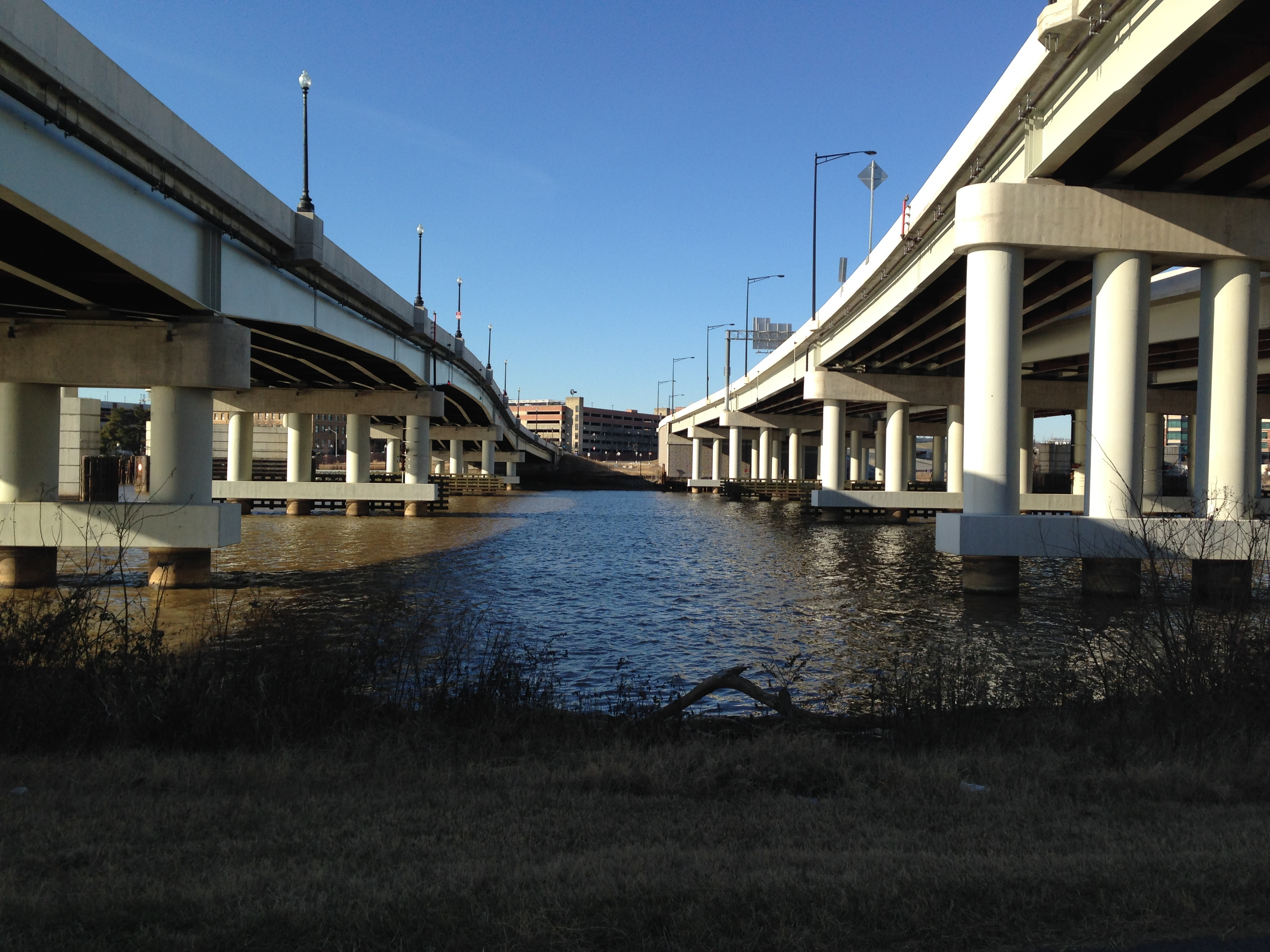 The 11th Street Bridges over the Anacostia River in Washington, DC in January 2015